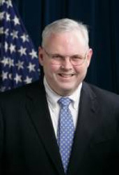 U.S. Presidential speechwriter William McGurn.